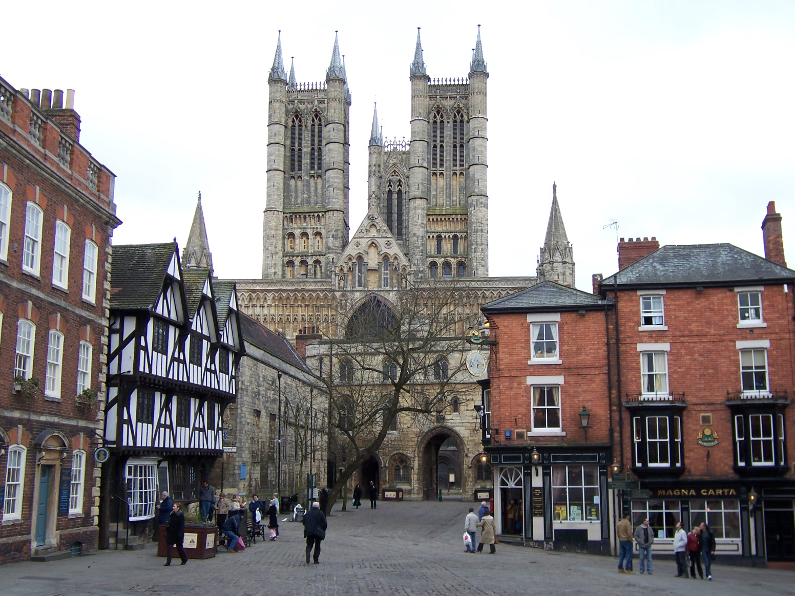 Lincoln Cathedral as seen from the Castle Hill, Lincoln (England)